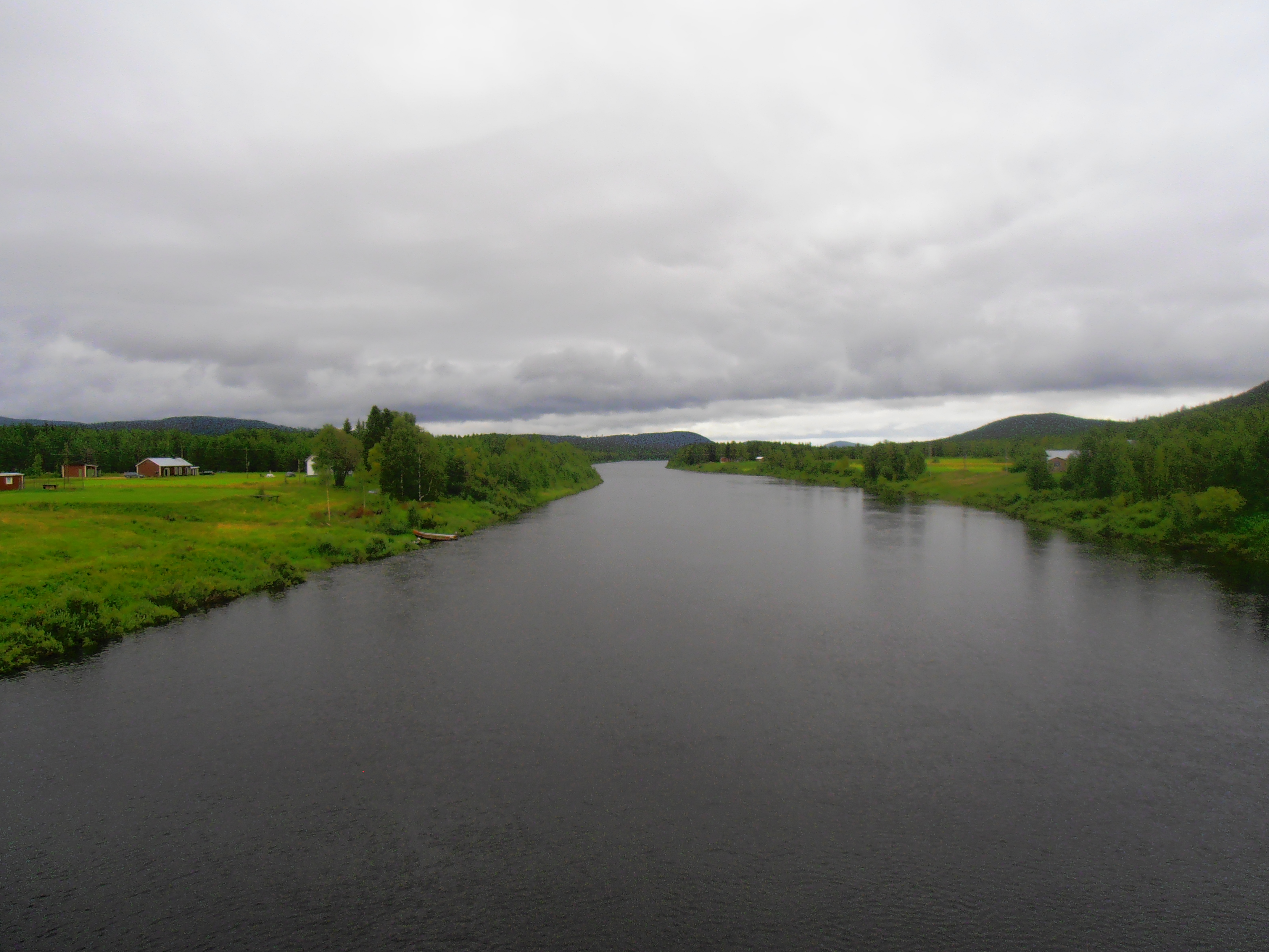 Ängesån